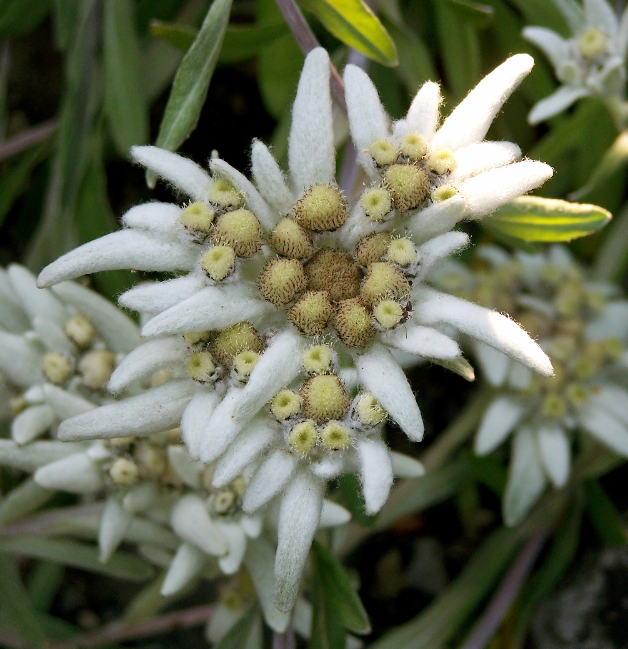 Leontopodium leontopodioides (Willd.) Beauverd Common name: Edelweiss Distributional range (native): Kashmir, Himalaya, SW-China.